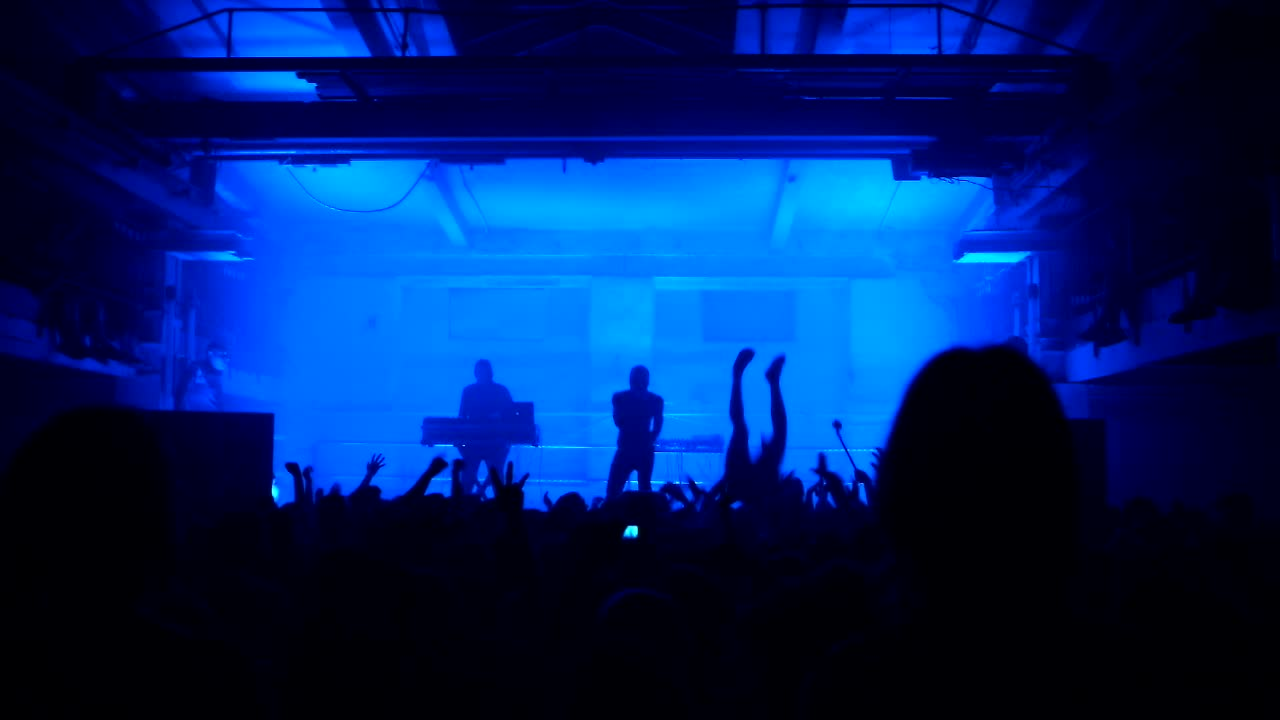 Moscow, 16 May 2013